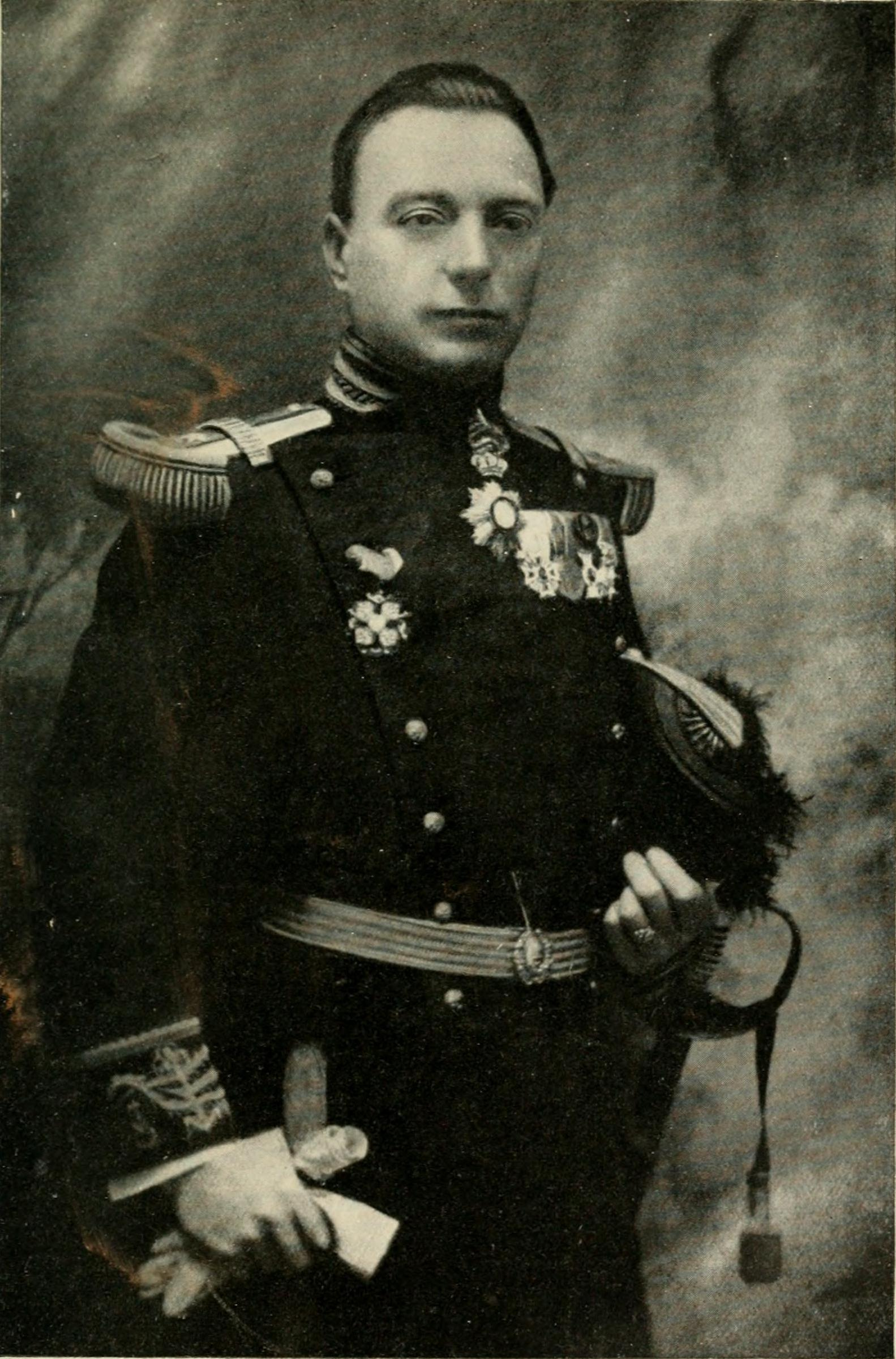 Commander Bazil Pantazzi